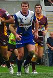 Andrew Ryan